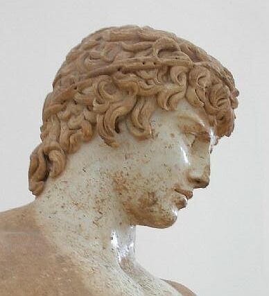 Detail from the cult statue of Antinous. Parian marble, reign of Hadrian (117-138 CE). H. 1.8 m (5 ft. 10 ¾ in.). Found in the temple of Apollo at Delphi, 1893. Archaeological Museum of Delphi.